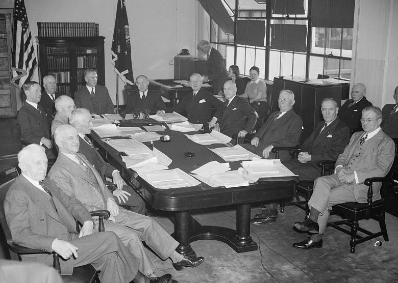 Army and Corps area Commanders meet with Secretary of War and Chief of Staff in Washington, D.C., Dec. 1, 1939 to plan intensive training of the army for the next six months. Left to right: Brig. Gen. Lorenzo D. Gasser, Acting Chief of Staff; Maj. Gen. Daniel Van Voorhis, Commanding General, Fifth Corps area; Maj. Gen. Percy P. Bishop, Commanding General, Seventh Corps. area; Maj. Gen. Herbert J. Brees, Commanding General, Eighth Corps area; Lieut. Gen. Stanley D. Embick, Commanding General, 3rd Army and Fourth Corps area; Lieut. Gen. Hugh A. Drum, Commanding General, 1st Army and Second Corps area; Major Gen. George C. Marshall, Chief of Staff; Harry Woodring, Secretary of War; Lieut. Gen. Stanley H. Ford, Commanding General, 2nd Army and Sixth Corps area; Lieut. Gen. John L. DeWitt, Commanding General 4th Army and Ninth Corps area; Maj. Gen. James K. Parsons, Commanding General, Third Corps area; Maj. Gen. James A. Woodruff, Commanding General, First Corps area; Brig. Gen. George P. Tyner, Assistant Chief of Staff.